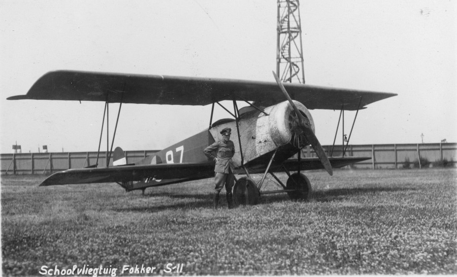 PictionID:56241052 - Catalog:AL253_000086.tif - Title:Fokker S.II - Filename:AL253_000086.tif - Image from Album 253 which belonged to Franz Schell-----Please Tag these images so that the information can be permanently stored with the digital file.---Repository: San Diego Air and Space Museum